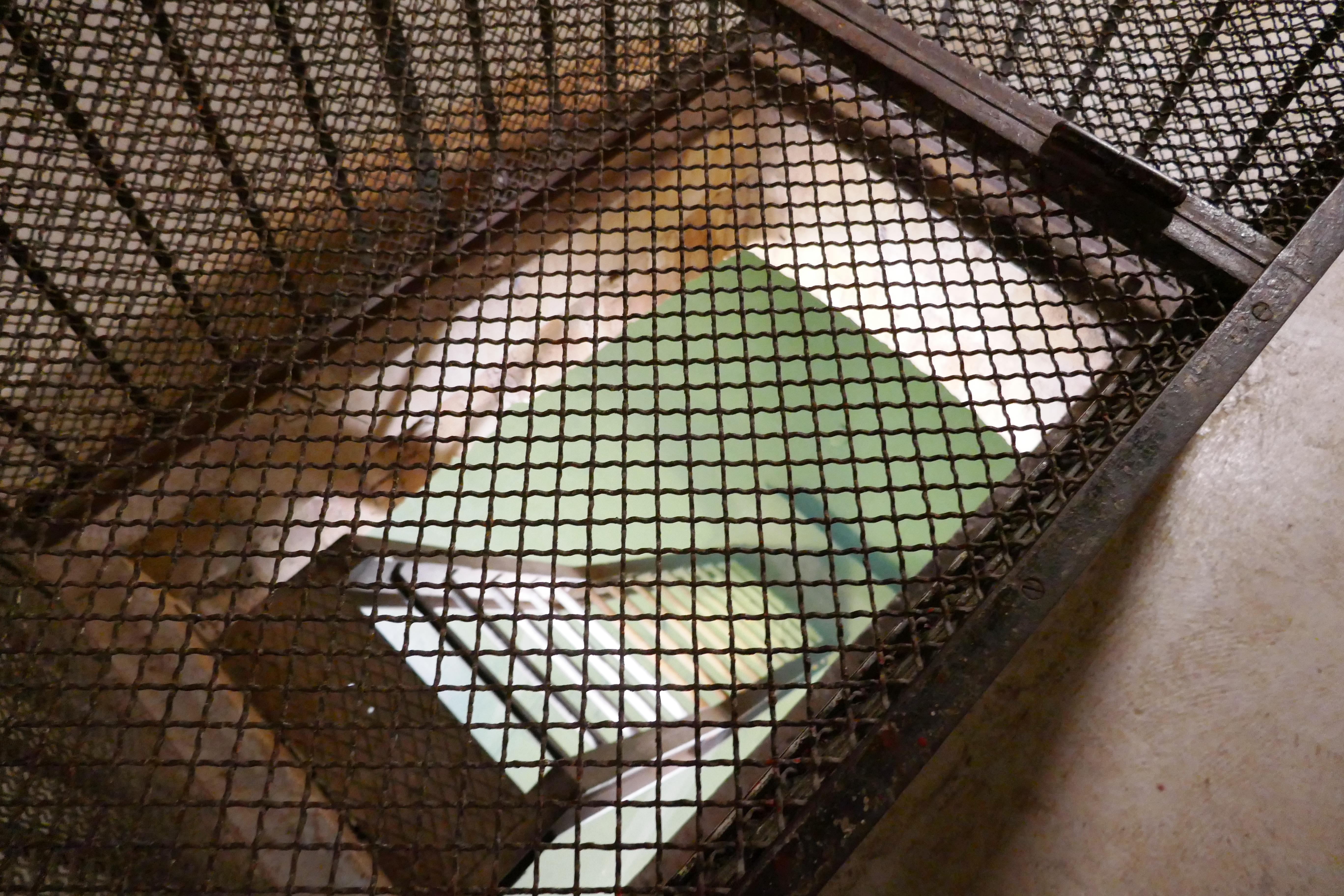 Opéra Garnier - Cistern / Water tank (underground)